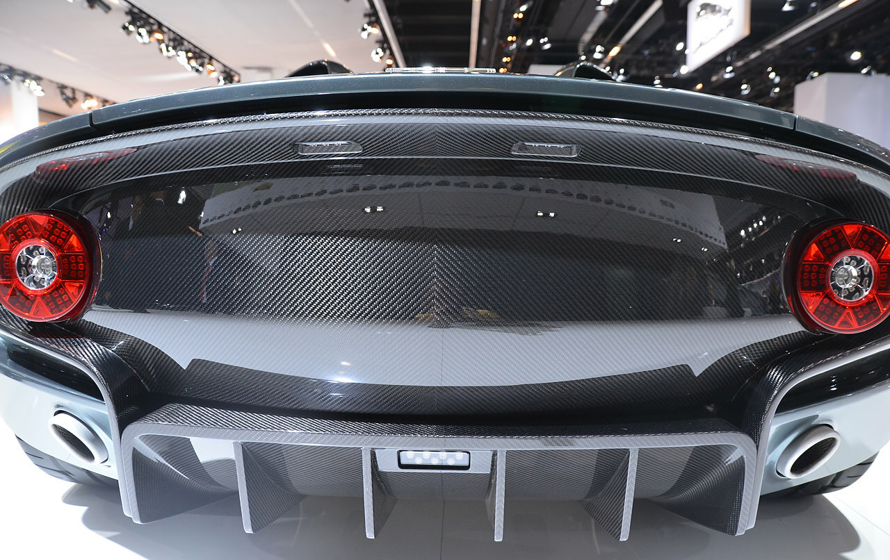 IAA Frankfurt 2013: Aston Martin CC100 / Photo: Raphael Jahn ____________________ Please feel free to use this image for FREE under the Creative Commons (CC) licence. However, if you use the image, pls set a backlink to and give credit as following: "Image: ". For highres images or any other inquiries pls contact mailto: . Thanks.